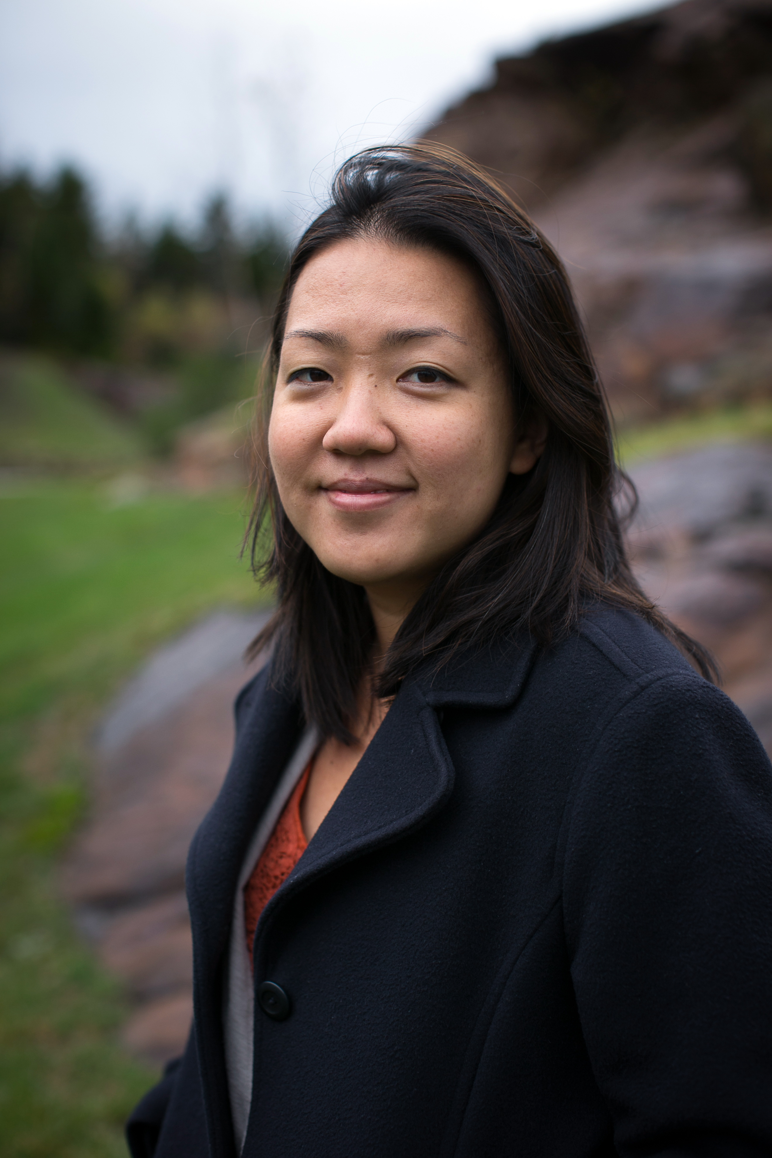 Leila Takayama Photo by Agaton Strom for PopTech